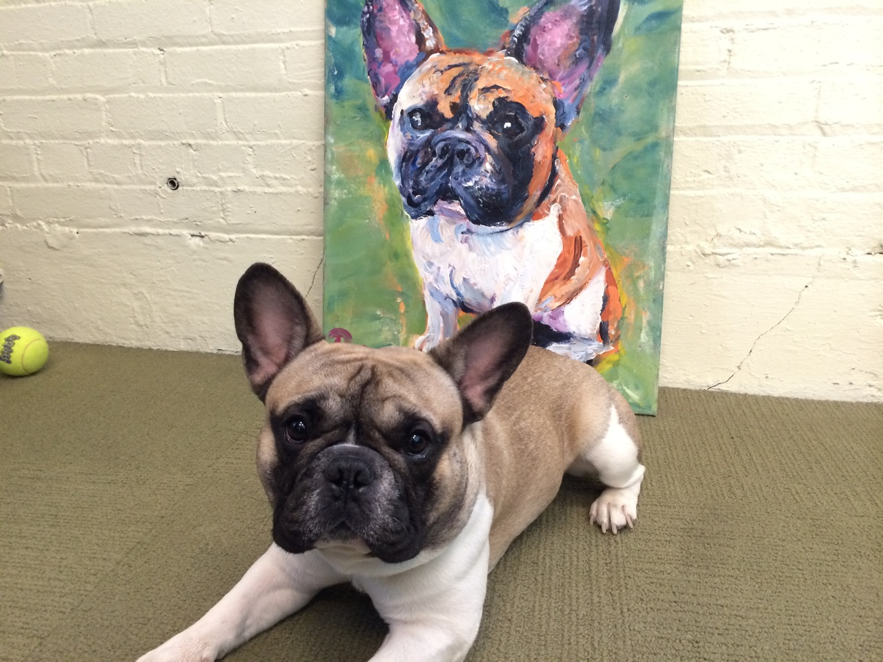 Milton the Dog and his portrait made by Pricasso.